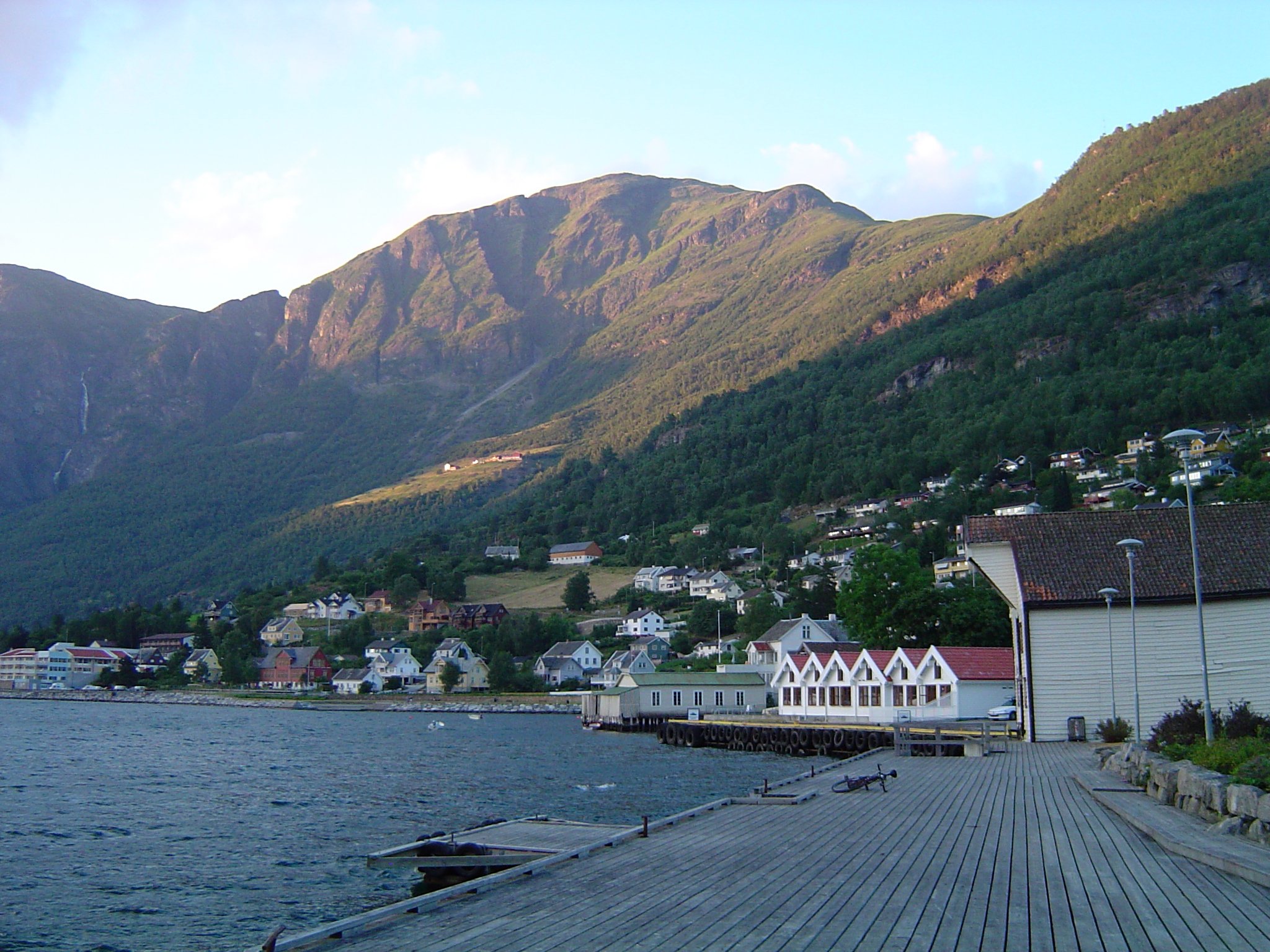 Picture taken 16. July 2005